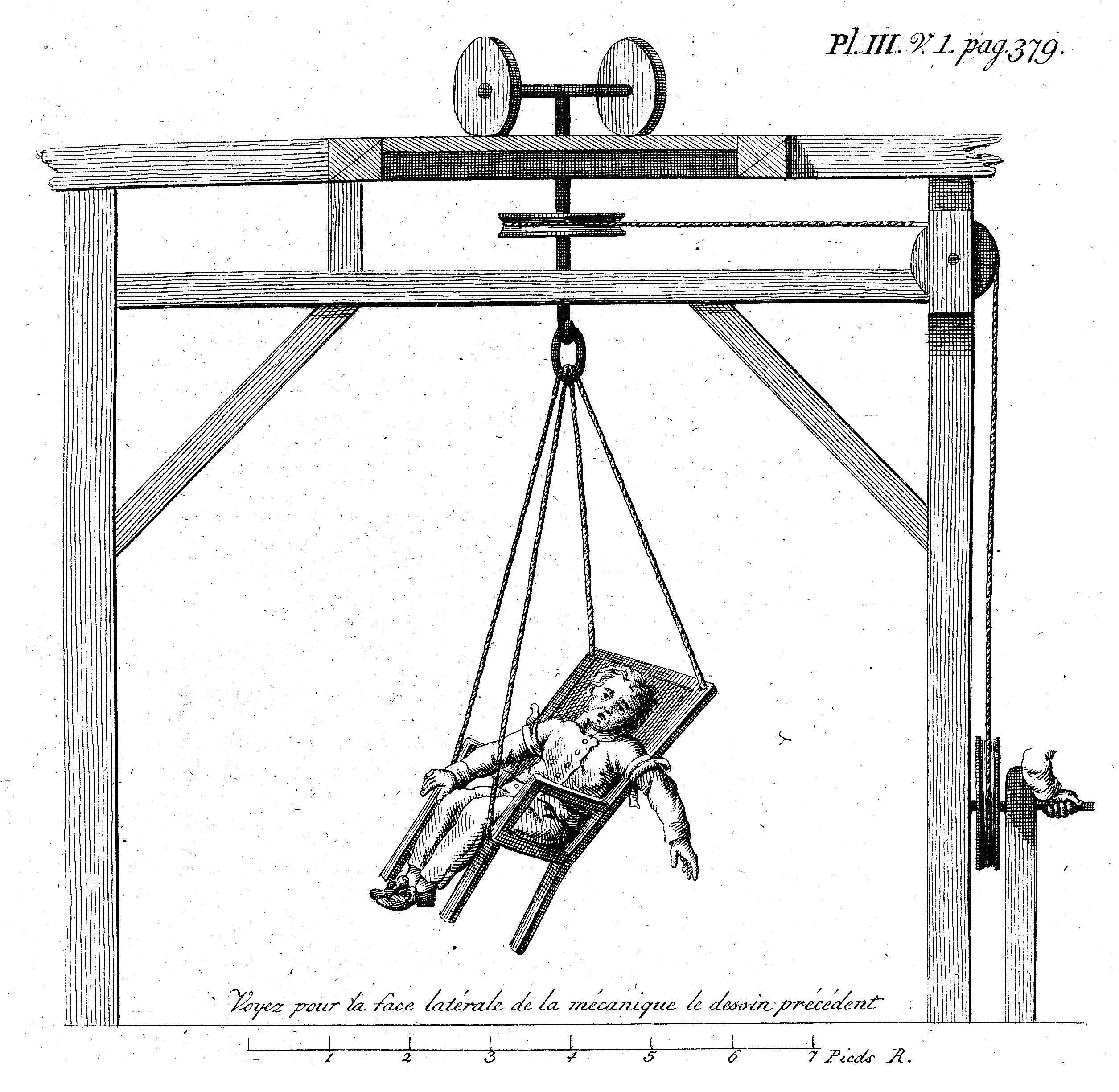 A rotary machine based on Cox's swing used in the Berlin Charite. From: Joseph Guislain: Traité sur l'aliénation mentale et sur les hospices des aliénés. Vol. 1, Pl. 3. (1828)